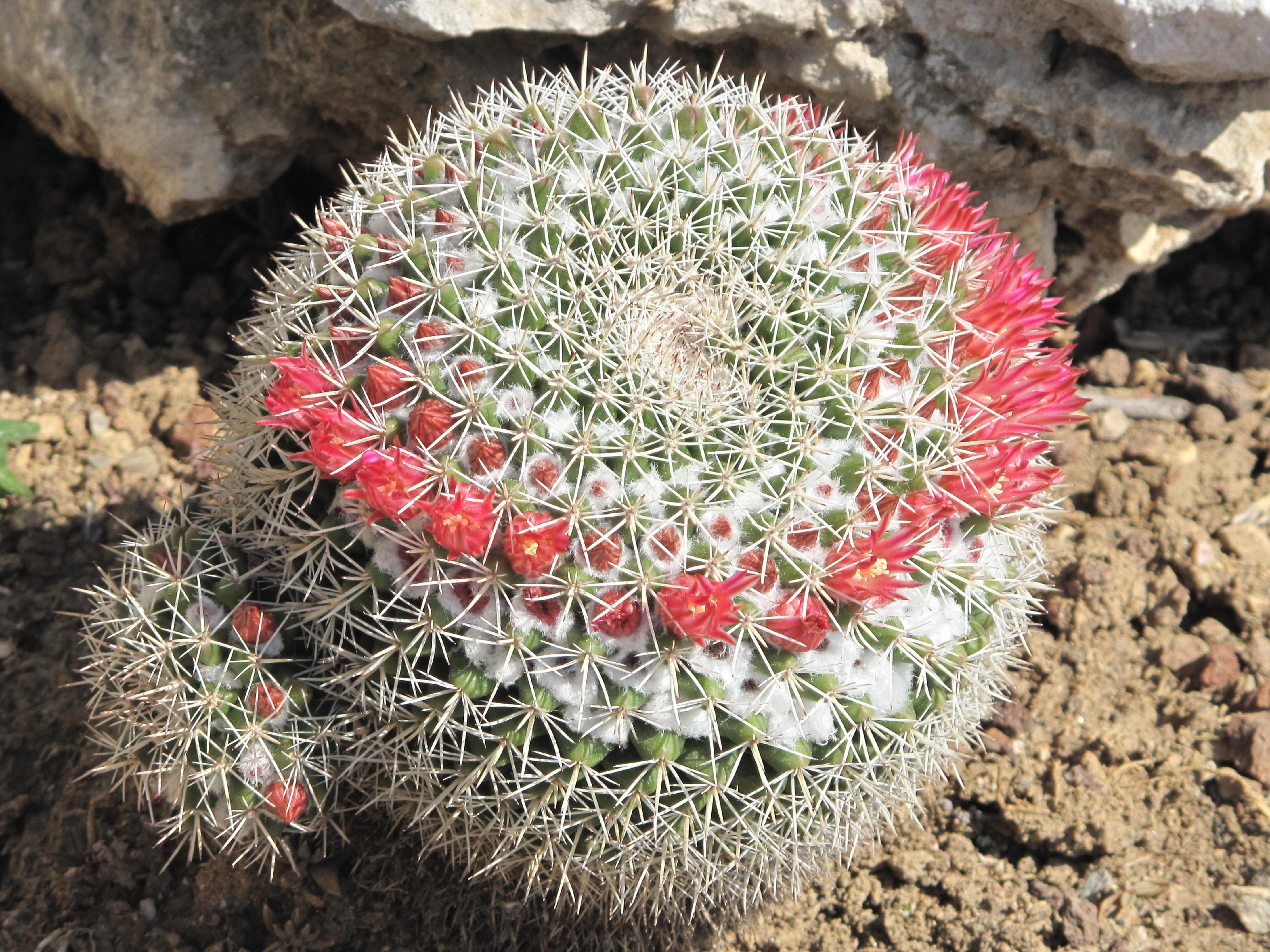 Mammillaria scrippsiana in the exotic garden of Monaco. Identified by label.